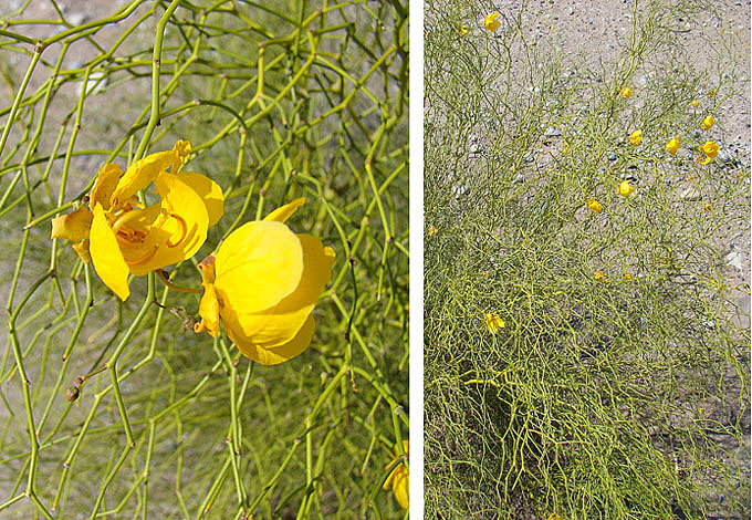 From northern San Juan Province, Argentina, where it is known as Pichanilla. In context at